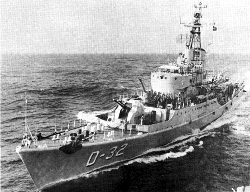 The Bolivarian Navy of Venezuela destroyer General Asturia (D-32) underway, circa 1963.